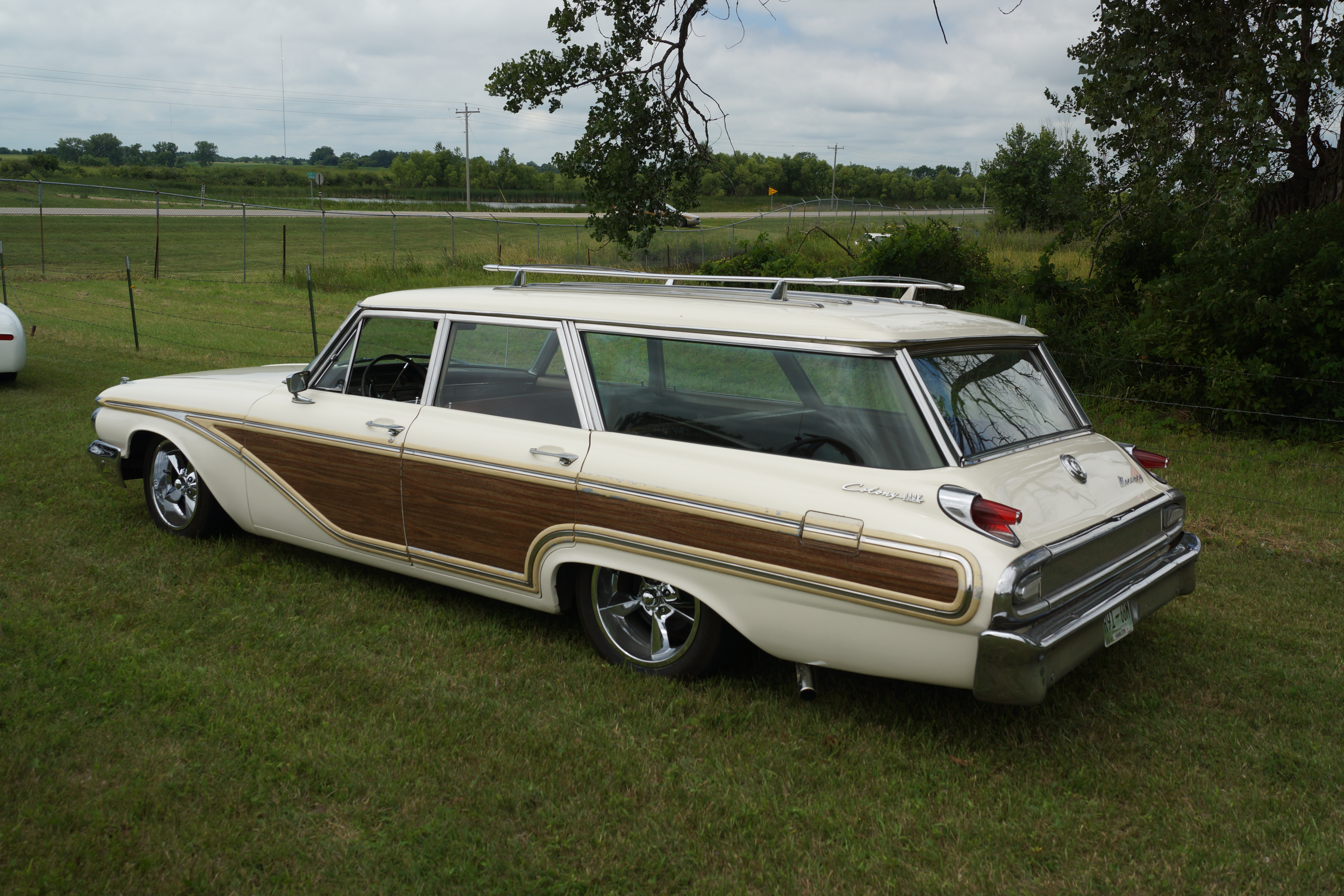 Click here for more car pictures at my Flickr site. Rohner's Auto Parts 3rd Annual Collector Car Gathering and Customer Appreciation Day Willmar, Minnesota July 2016 My Dad used to bring along as he would get parts for the family car. As a little car freak, I loved running around checking out all of the different cars. I bought my first car before I had my license and I had to make many trips to Rohner's to get that car road ready before I passed my road test at 16, I have been going there ever since and bringing friends along and getting them hooked as well. It was a great day and I heard many great experiences people had finding parts to fix their cars. I feel all of us should throw them an appreciation party.